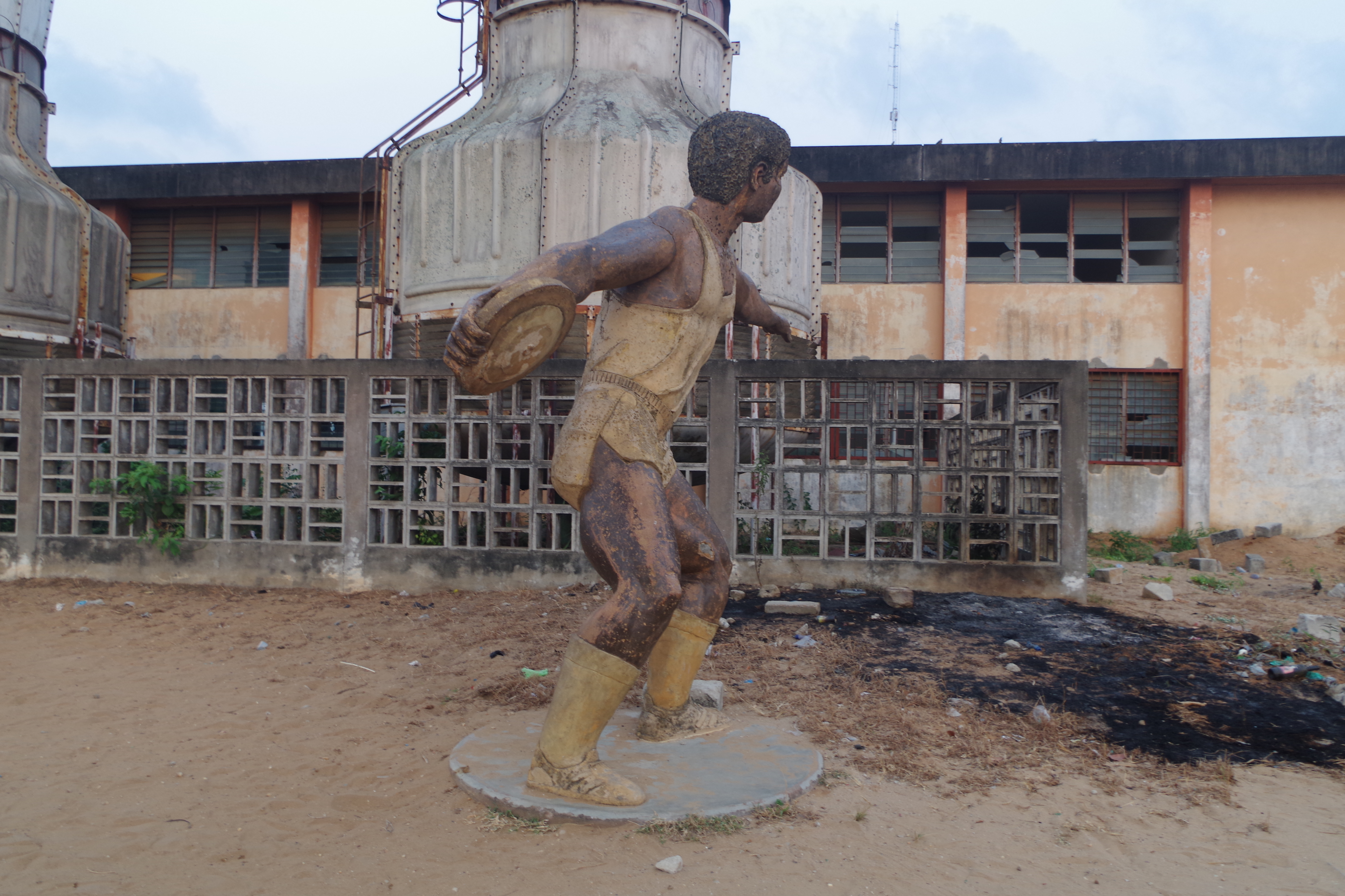 A statue erected next to the Stade Général Mathieu Kérékou Sports Palace showing an athlete about to throw a disc. Photo taken in 2019.